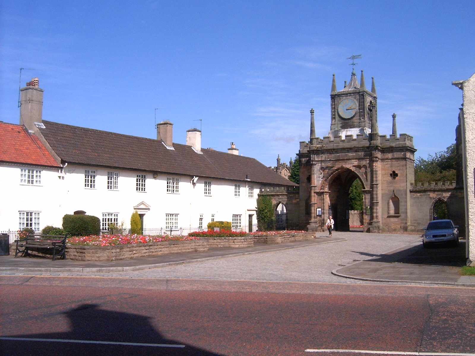 Park Gate houses at Auckland Castle